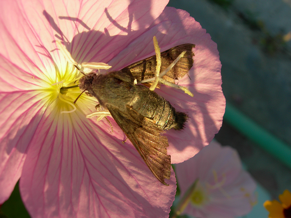 Hawk Moth or Sphinx Moths (Sphingidae) from Olympiaki Akti, Greece